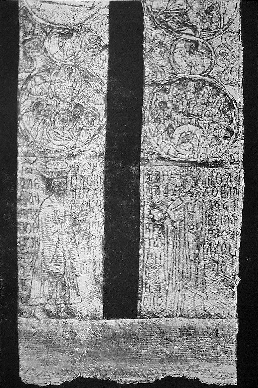 Alexandru cel Bun and his consort, lady Marina, at a monastery from Russia.